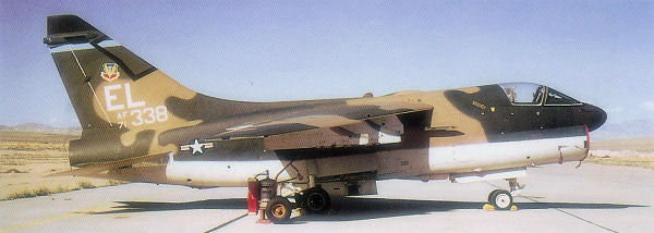 A-7D Serial No: 71-0338 of the 75th Tactical Fighter Squadron / 23d Tactical Fighter Wing - England Air Force Base, Louisiana 1973: Delivered to 23d Tactical Fighter Wing/75th TFS, England AFB, LA (c/n D-249) Transferred to 23d TFW/74th TFS, 1973 Transferred to 354th Tactical Fighter Wing/356th TFS, Myrtle Beach AFB, SC, 1974 Transferred to 175th Tactical Fighter Squadron, SD Air National Guard, 1977 Transferred to to AMARC as AE0102 Jan 8, 1992. Disposition:17-APR-98 / To Fritz Enterprises, Taylor, MI. (Actually to HVF West yard, Tucson). Scrapped.